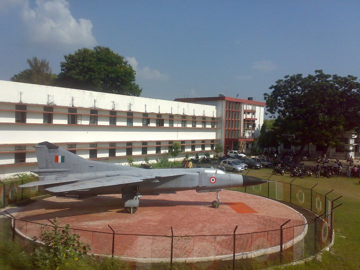 This shows Ujjain Engineering College